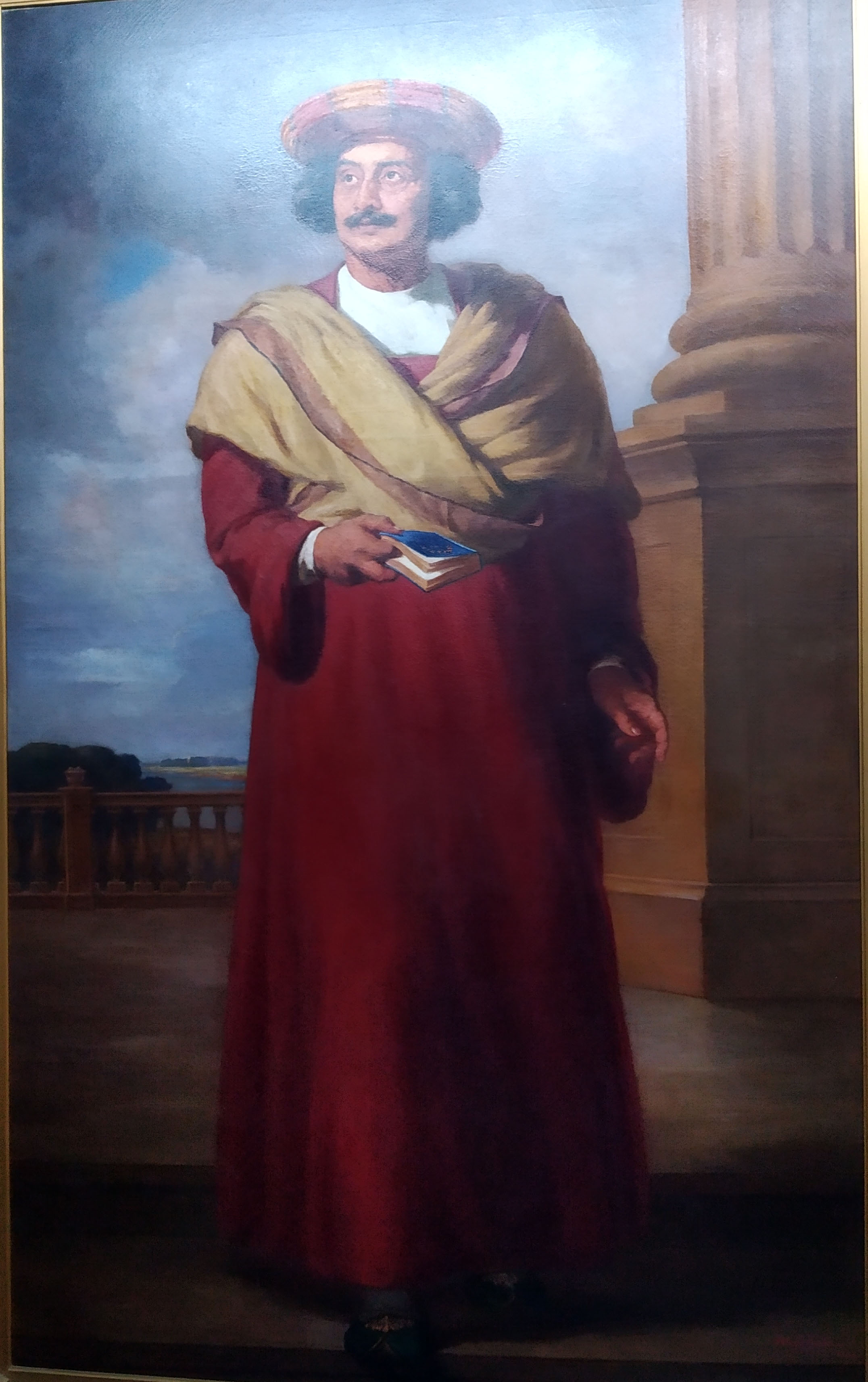 Raja Ram Mohan Roy (রামমোহন রায়) অথবা রাজা রাম মোহন রায়